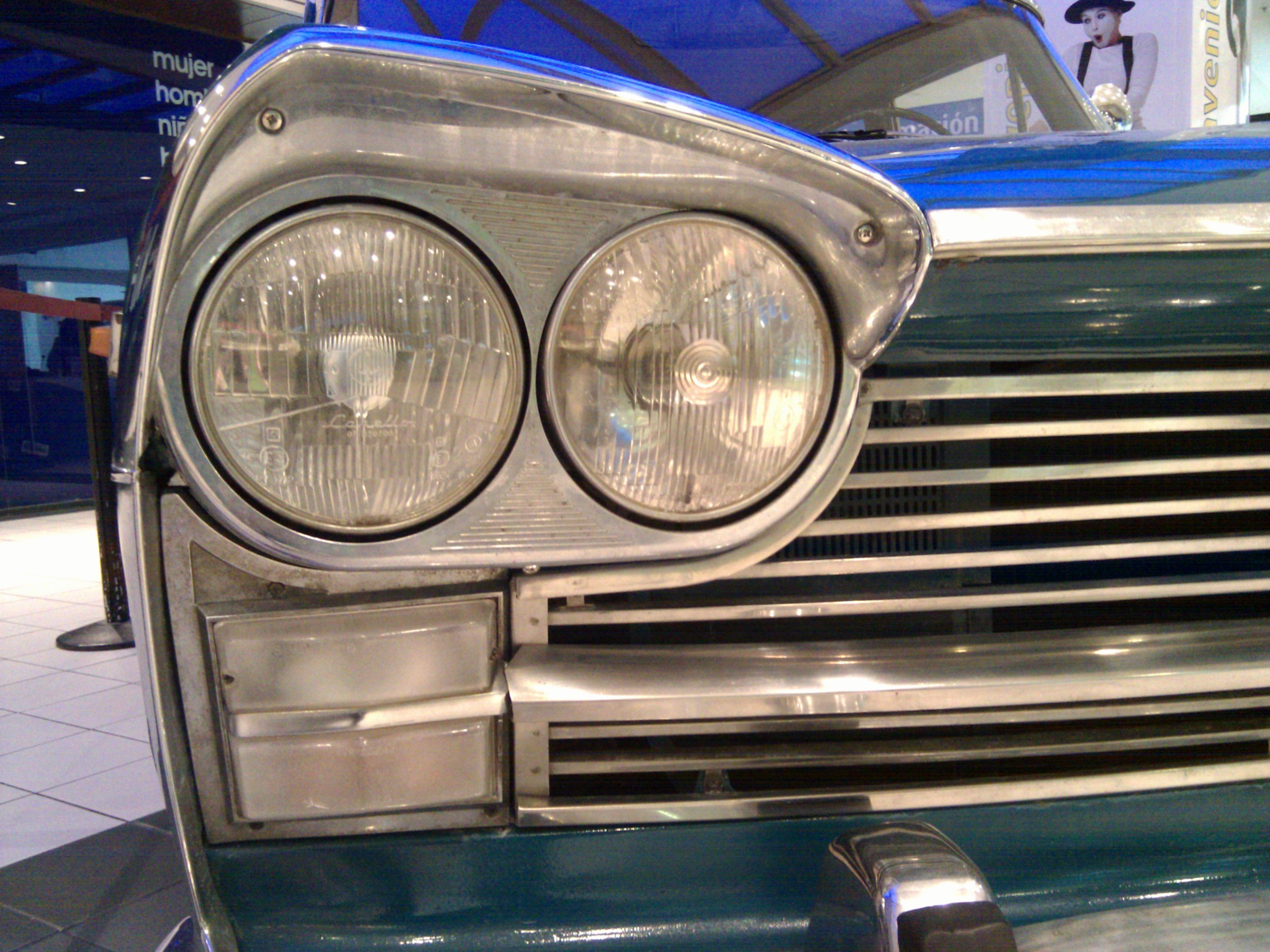 SEAT 1500 in a shopping mall in Spain.